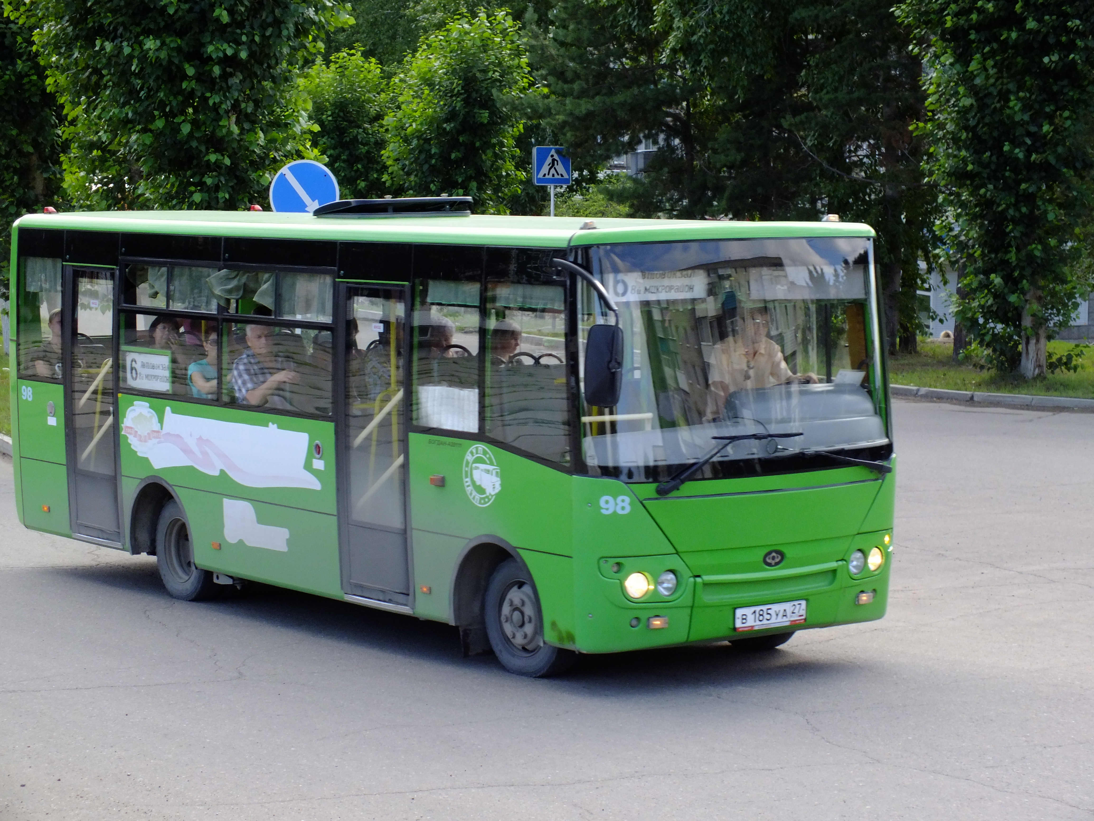 Amursk